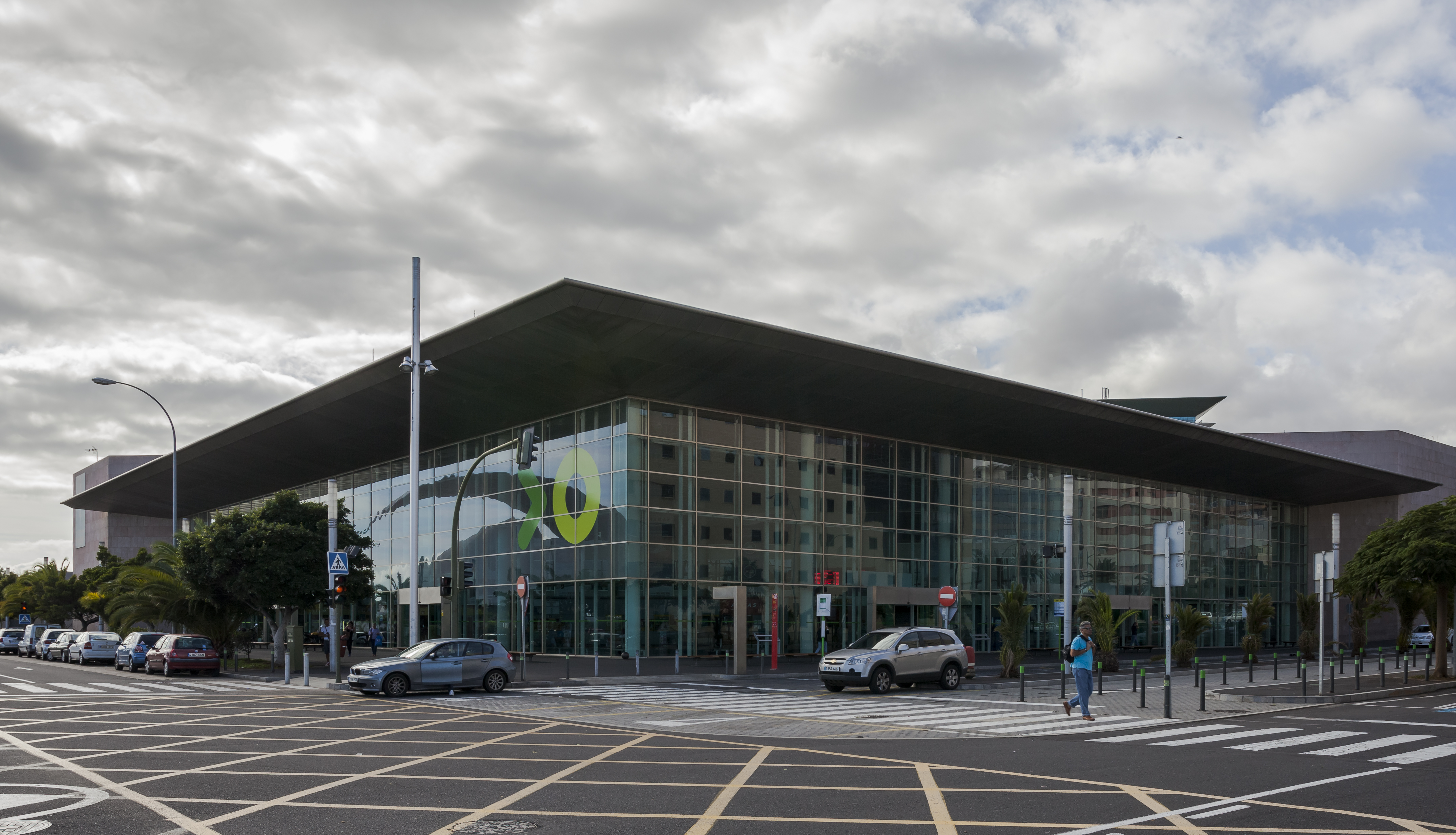 Intercambiador, Santa Cruz de Tenerife, Spain